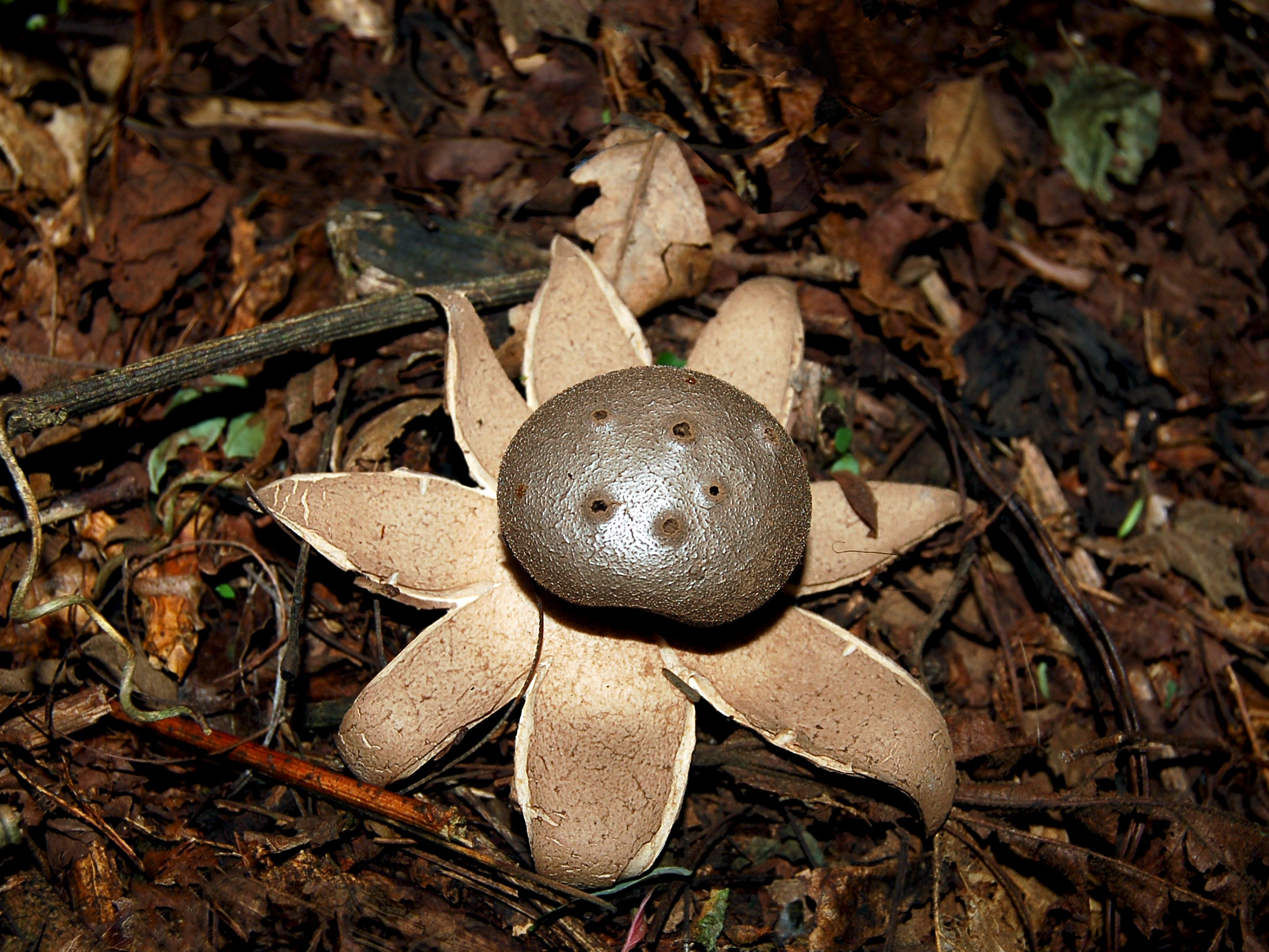 The mushroom Myriostoma coliforme (Family Geastraceae), taken in Bella Vista, Santa Cruz, Bolivia